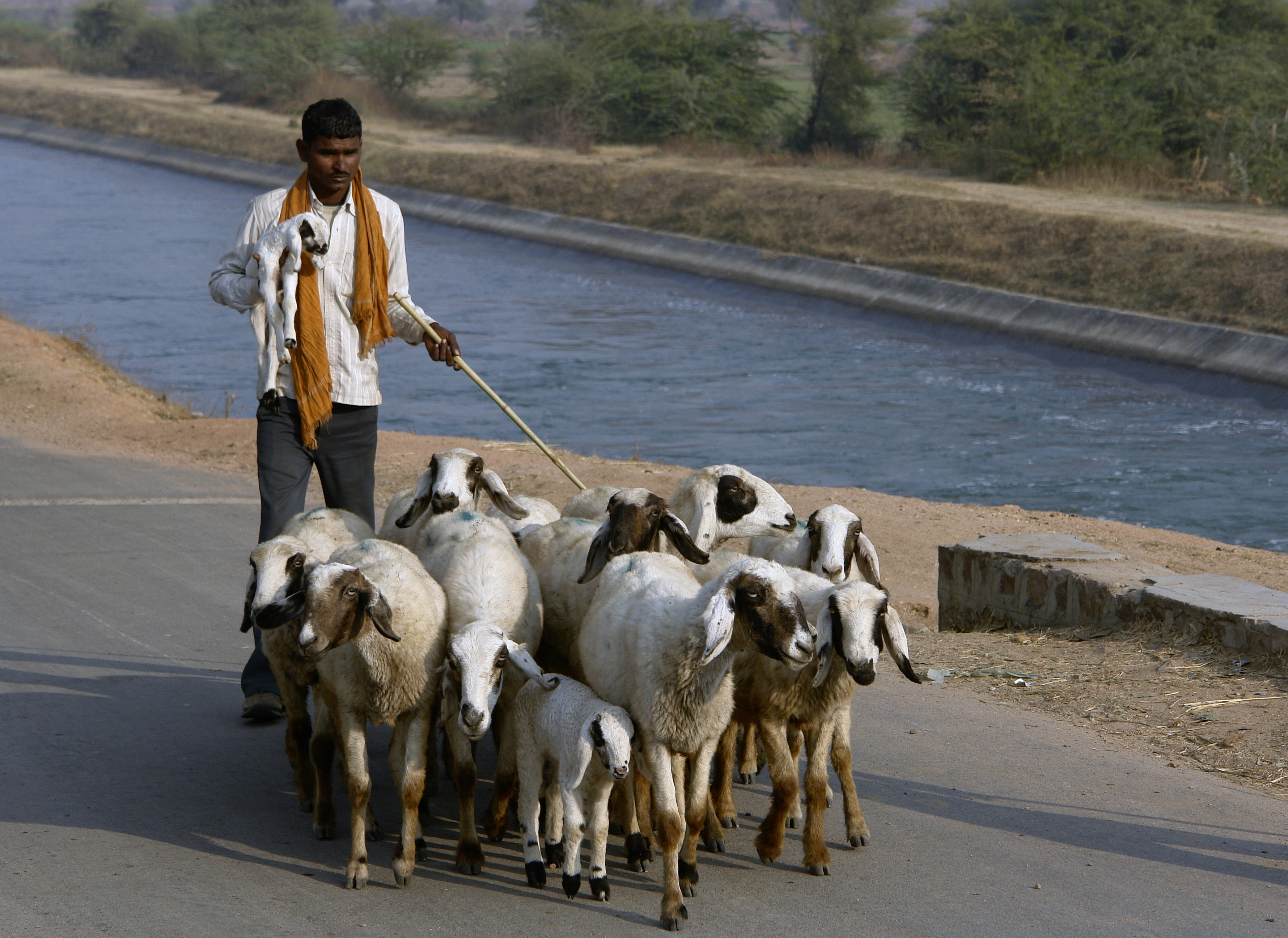 Shepherd, Gwalior district, Chambal, India.